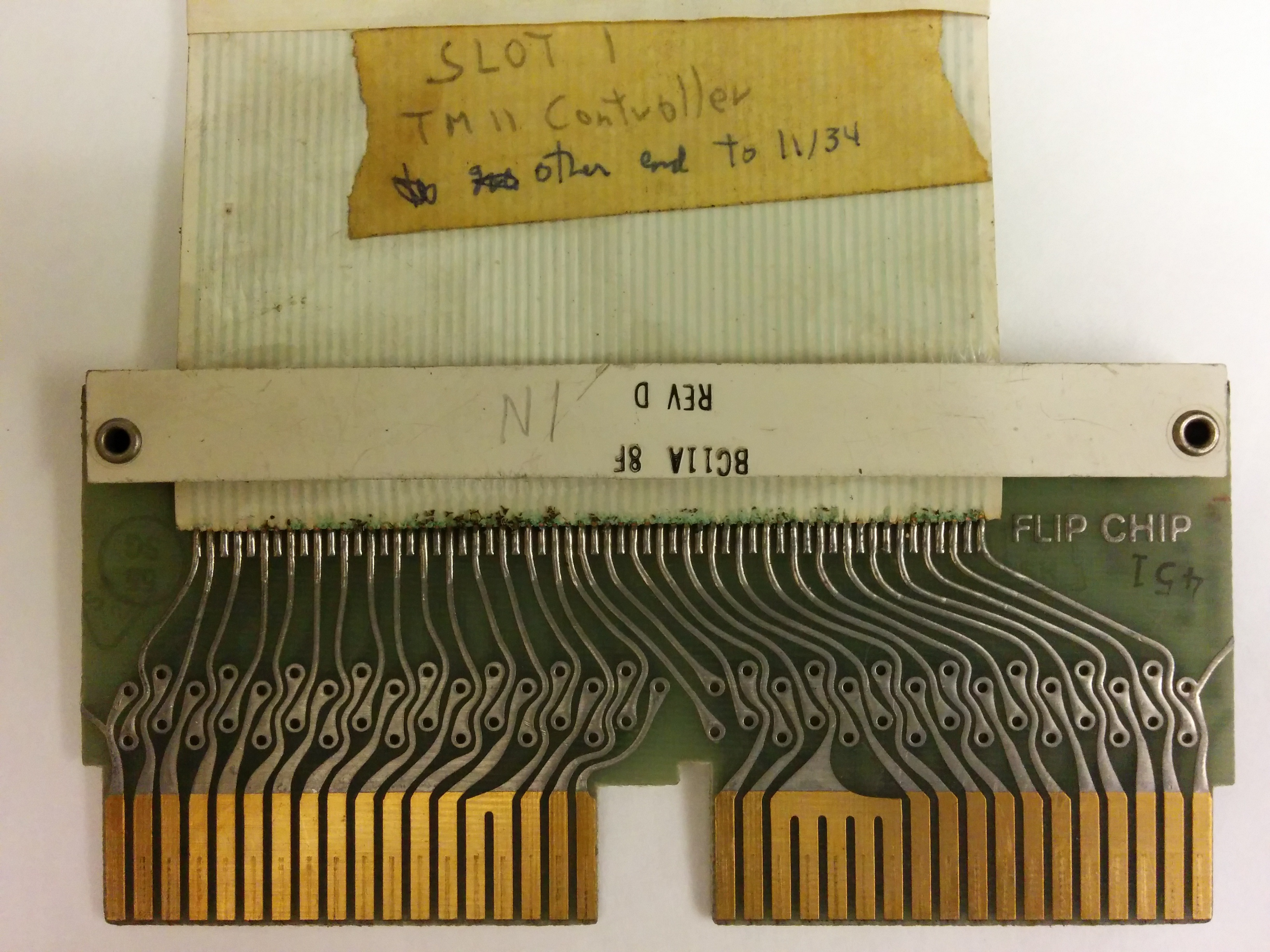 Unibus connector and cable from a PDP-11/34.